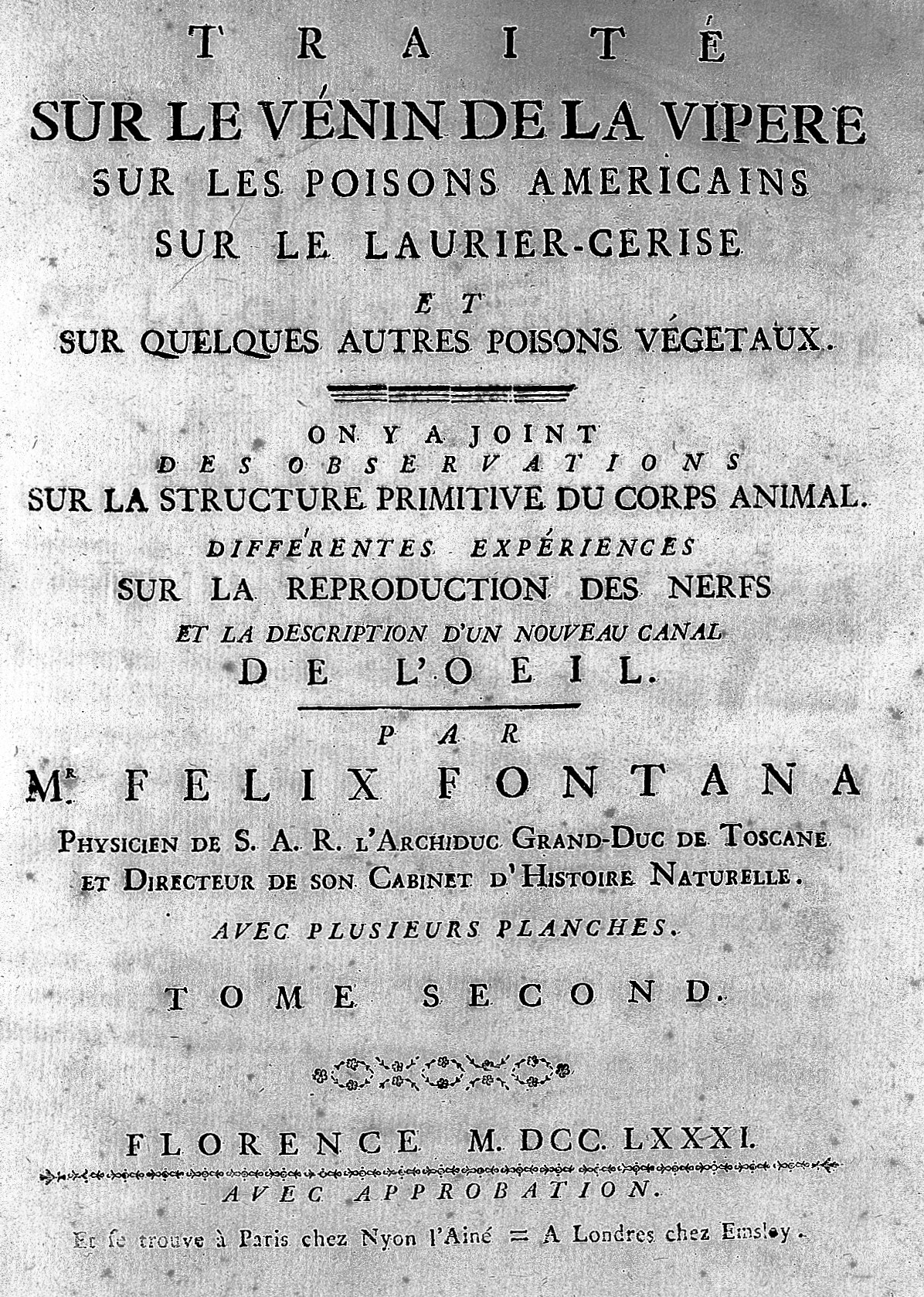 Title page, volume 2 Rare Books Keywords: Felice Gaspar Ferdinand Fontana